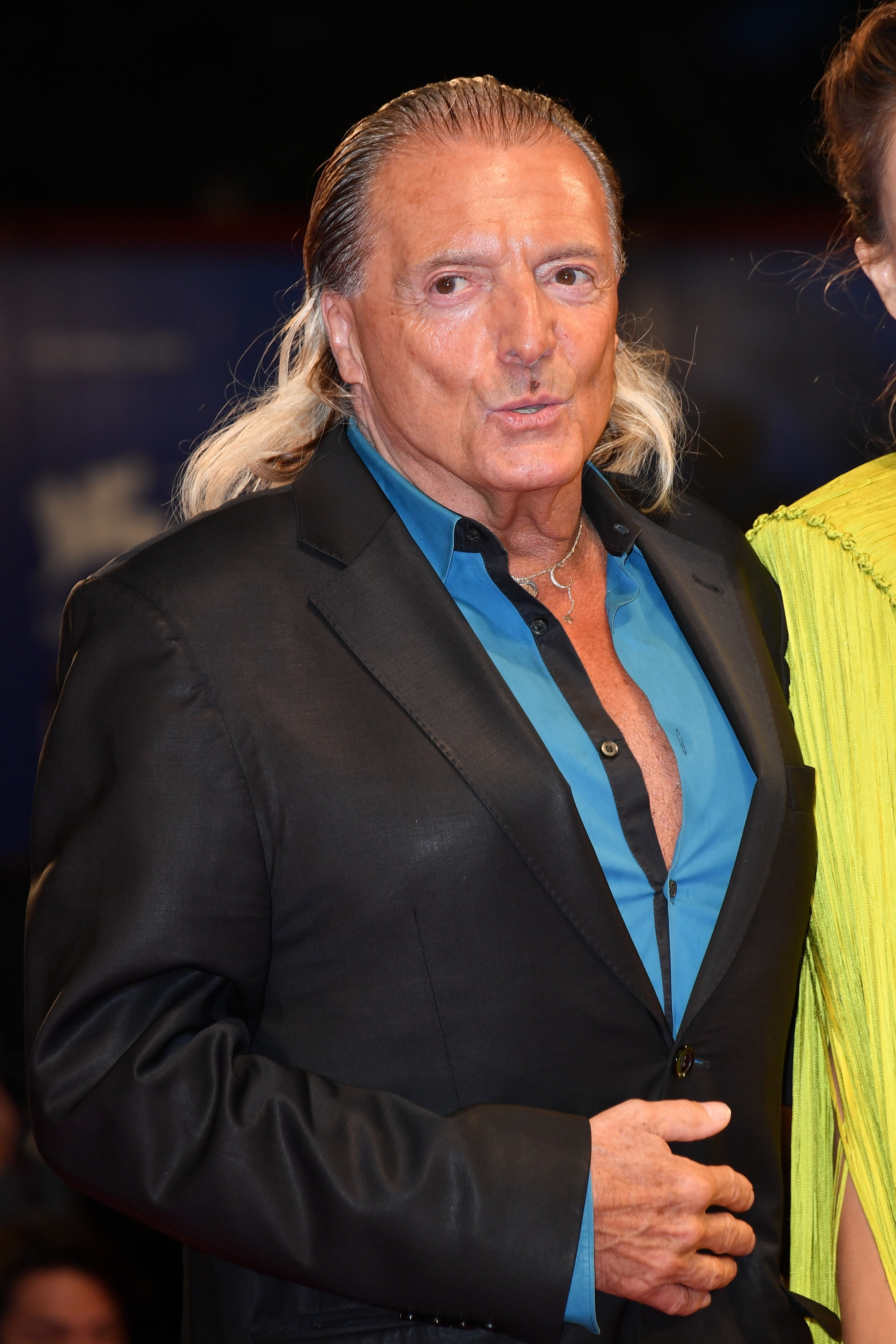 Armand Assante during the red carpet of the Kineo Movie Diamond Award. 74th Venice Film Festival. Venice. Italy 03/09/2017.